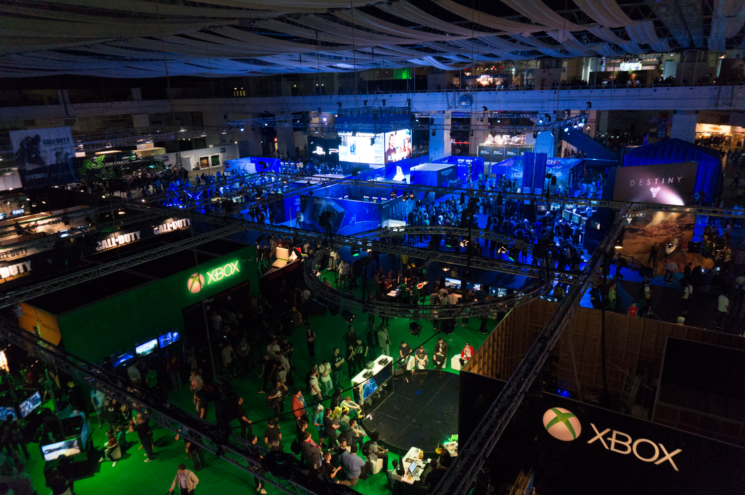 EGX 2014.